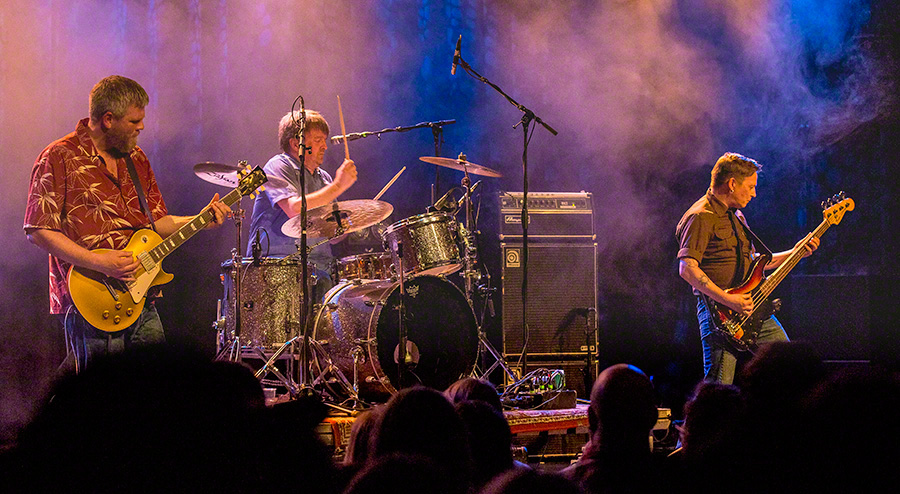 Pogo Pops in concert at Parkteatret in Oslo. Lineup: Frank Hammersland (bass and vocal) Viggo Krüger (guitar) Nikolai Hamre (drums)